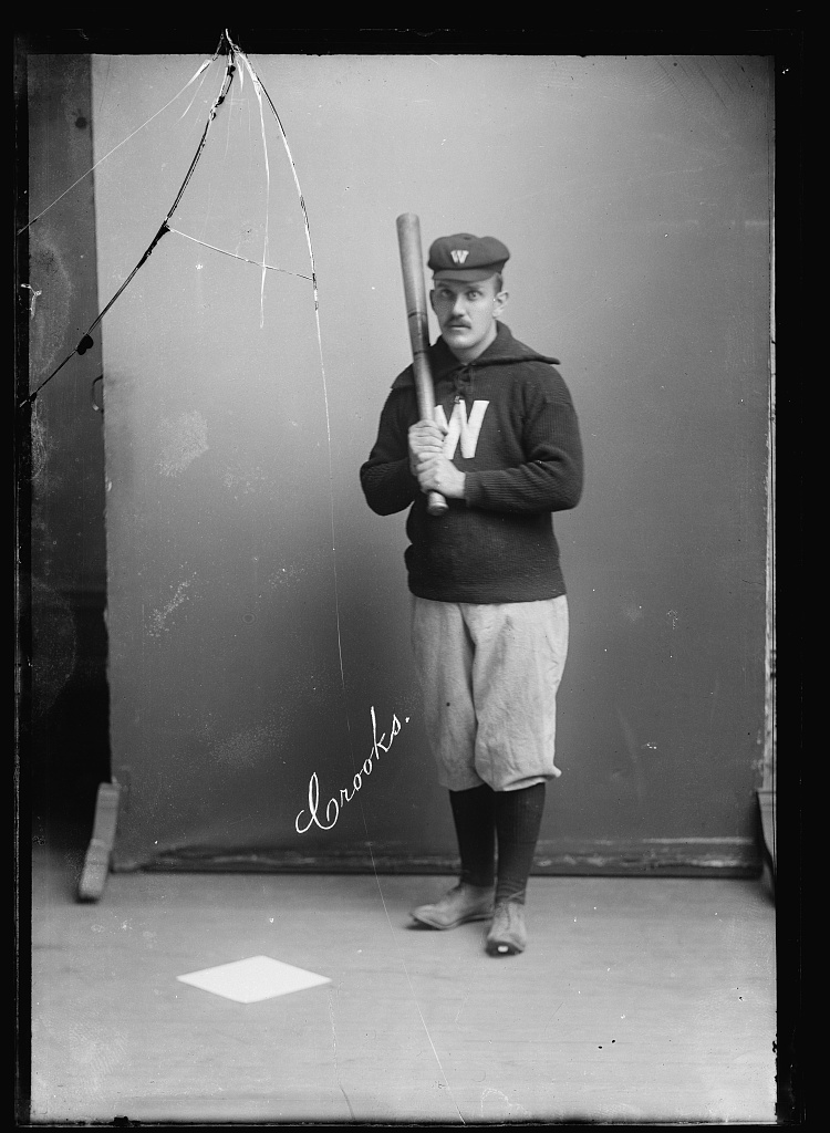 Jack Crooks, player for the Washington Nationals photographed by C. M. Bell Studio